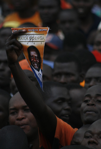 October 6, 2007 - Orange Democratic Movement supporters carry a portrait of Raila Odinga one of the presidential candidate in the Kenyan general election to be held in December 2007.ODM 6